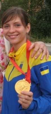 Halyna Vasylivna Pundyk, Olympic champion for Ukraine in fencing.